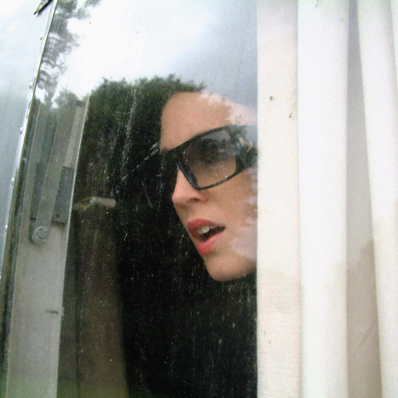 Coco Electrik press image.